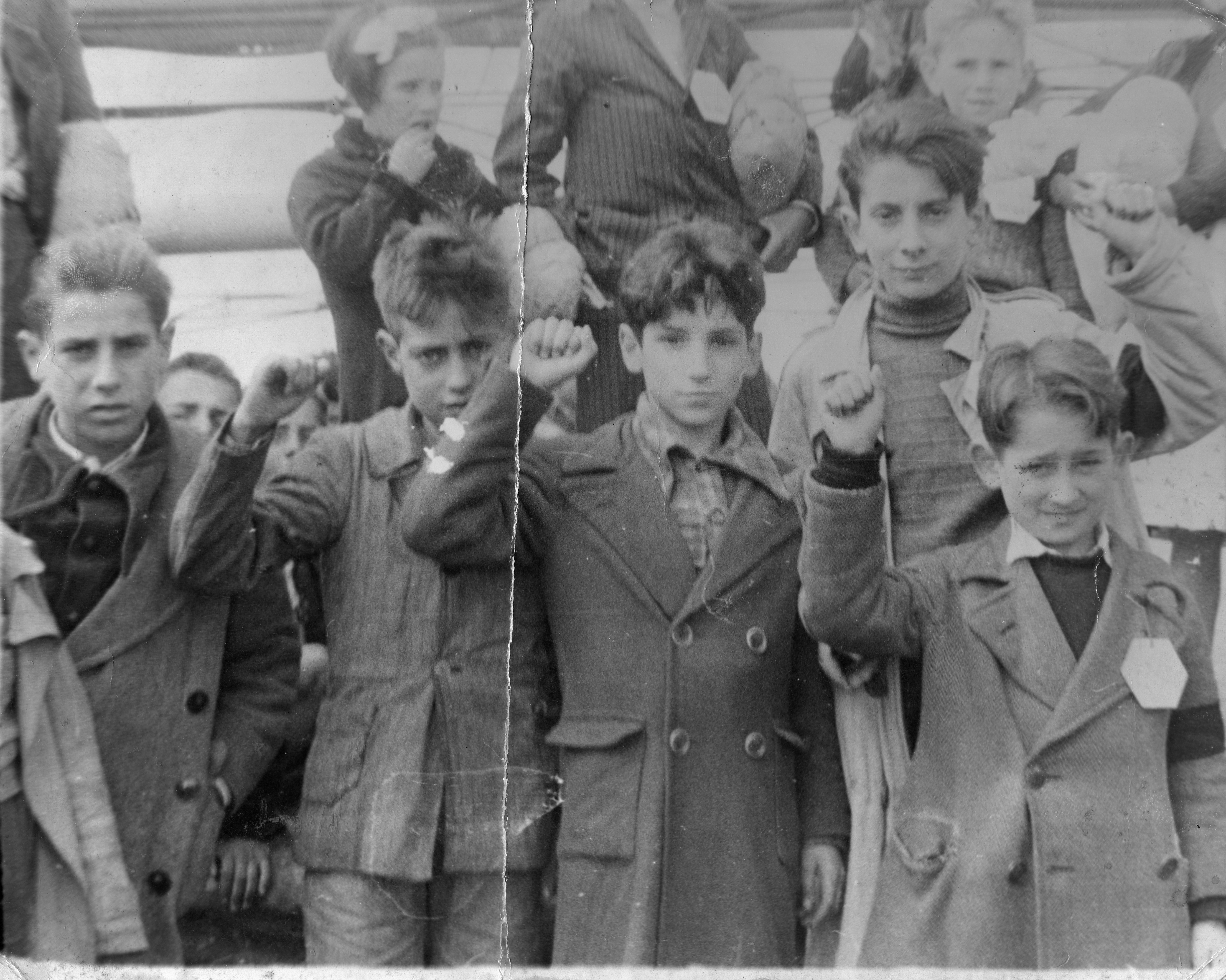 The photograph shows children preparing for evacuation from Spain, during the Spanish Civil War, some giving the Republican salute. It is donated to Wikipedia Commons by the estate of Olga Brocca Smith, and is dedicated to all innocent victims of war.